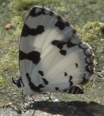 angled pierrot mudpuddling at Yeoor, Mumbai